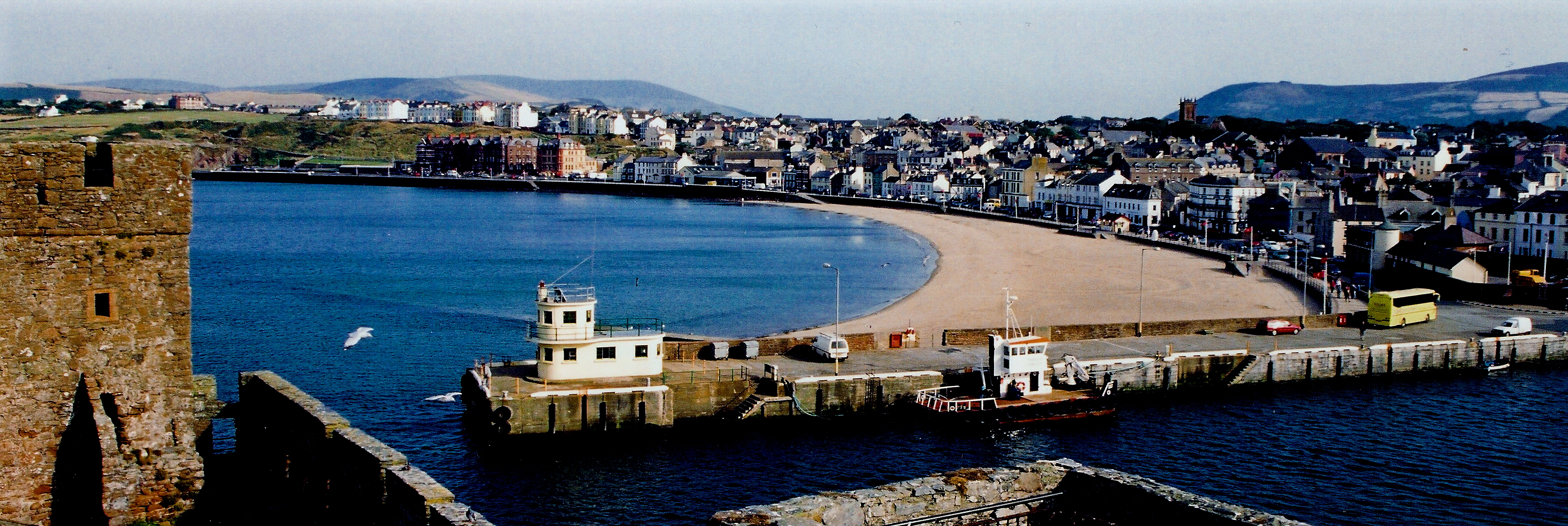 Peel - Peel Bay Beach View is to the southeast from Peel Castle.